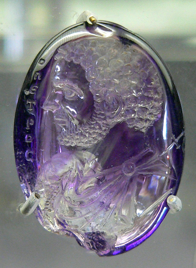 Portrait of Roman Emperor Caracalla; inscription in Greek letters O ΠETPOC and cross added at the Byzantine period in order to transform the portrait in that of St. Peter. Amethyst intaglio, ca. 212 AD. From the treasury of the Sainte-Chapelle in Paris.